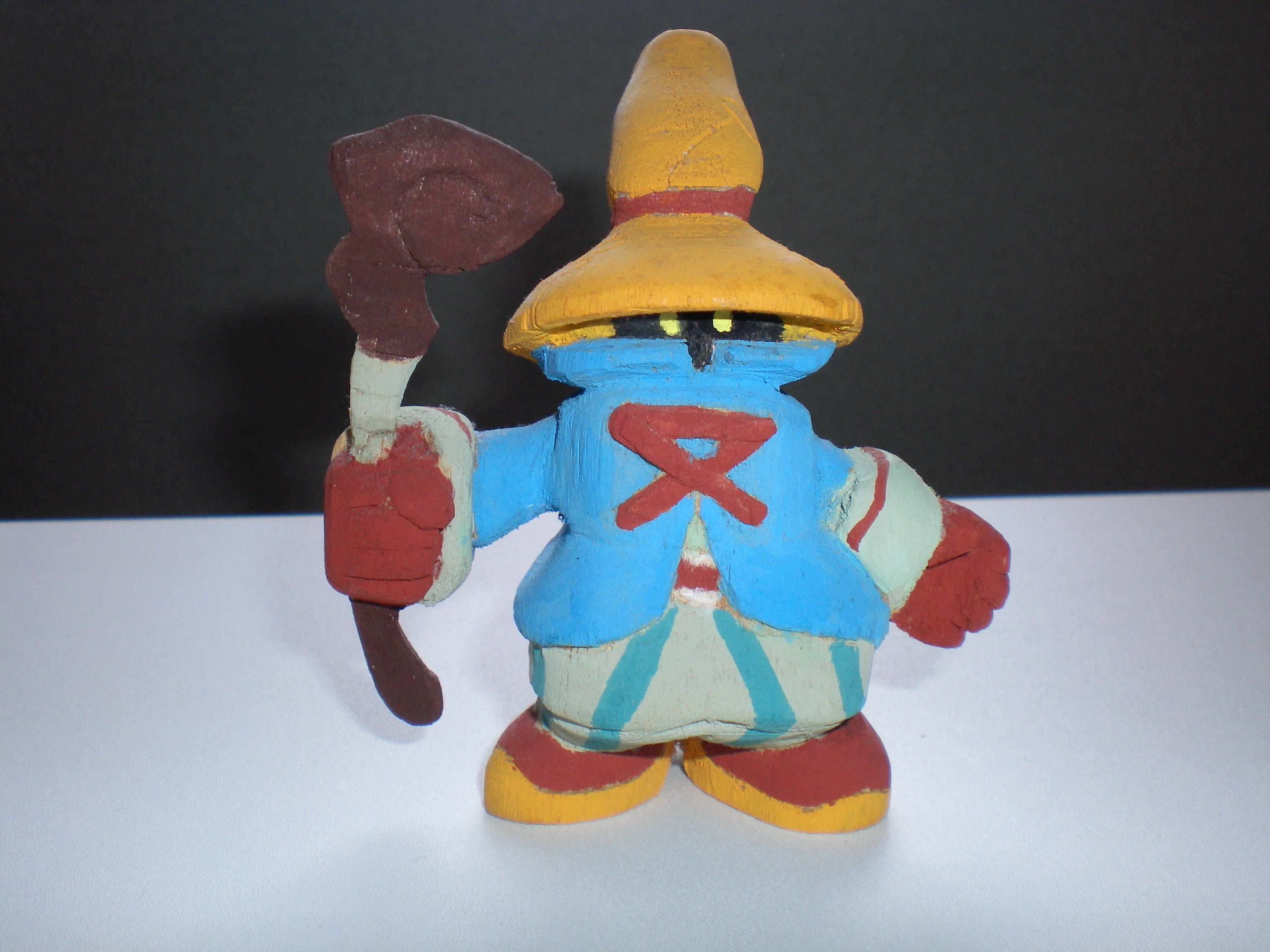 Figure of Vivi from Final Fantasy IX